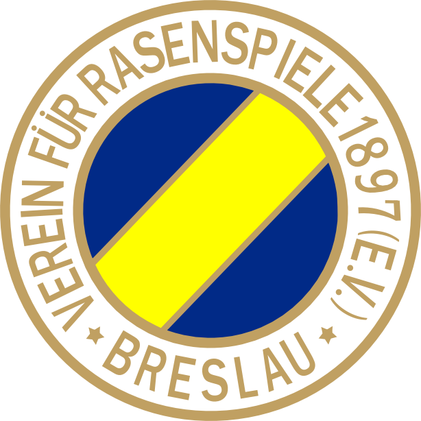 Historical logo of VfR 1897 Breslau.